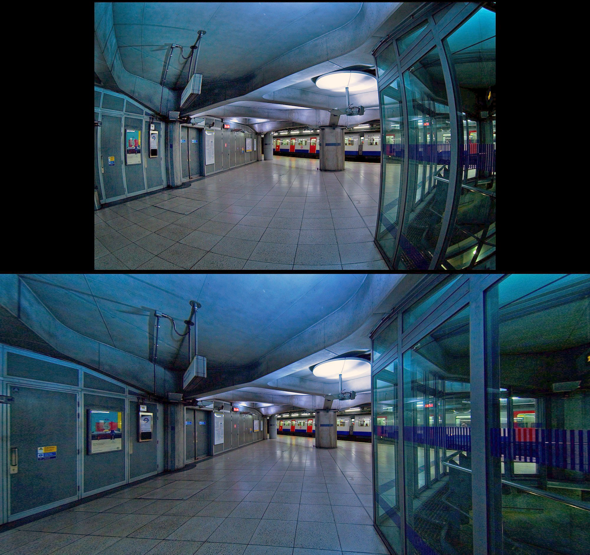 An example of Panorama Tools' "Remap" function applied to a fisheye original.